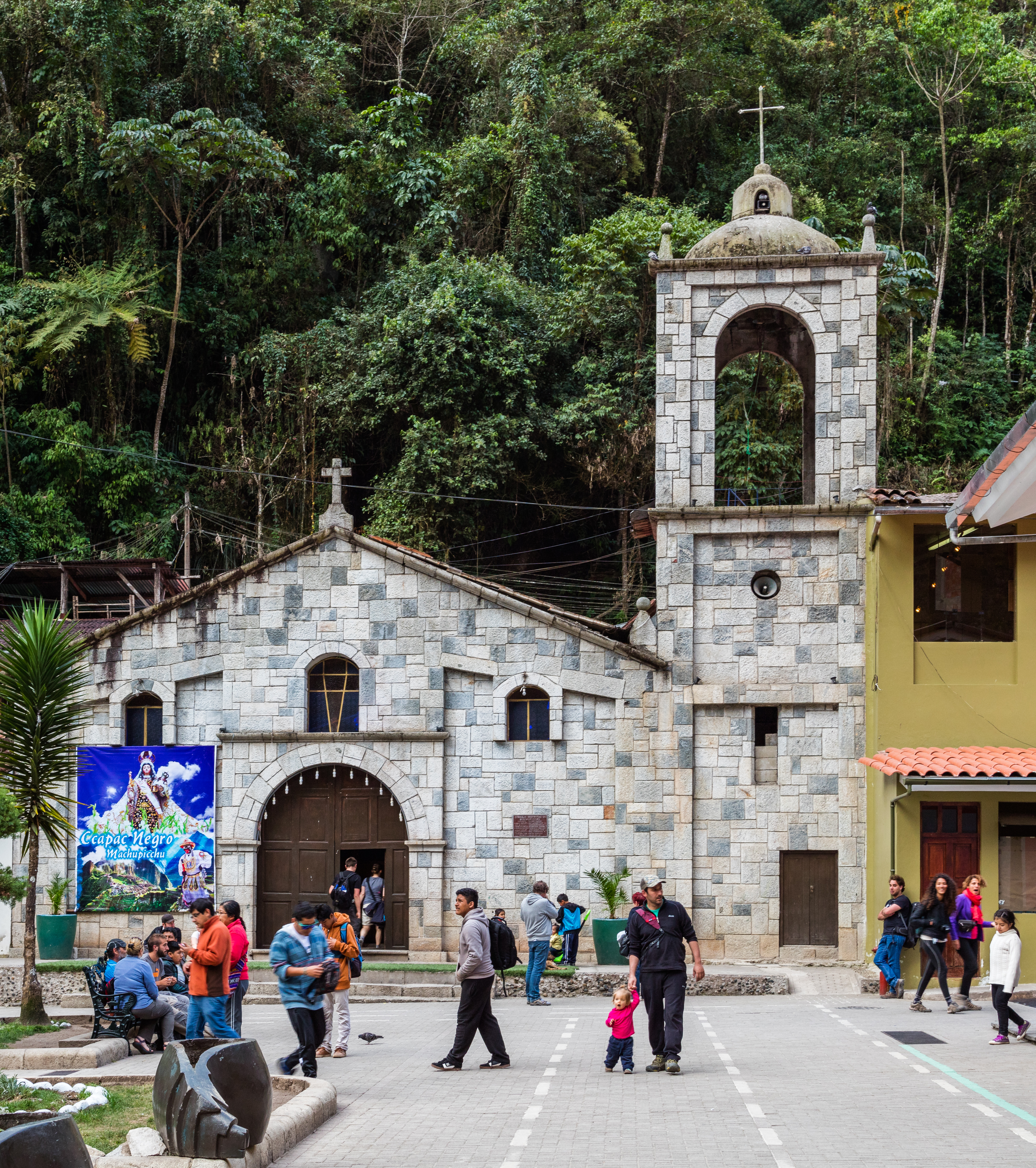 Aguas Calientes, Cuzco, Peru